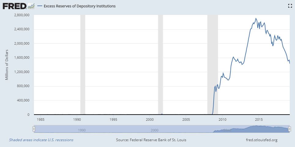 Excess Reserves in the U.S., 1984-2019, from FRED